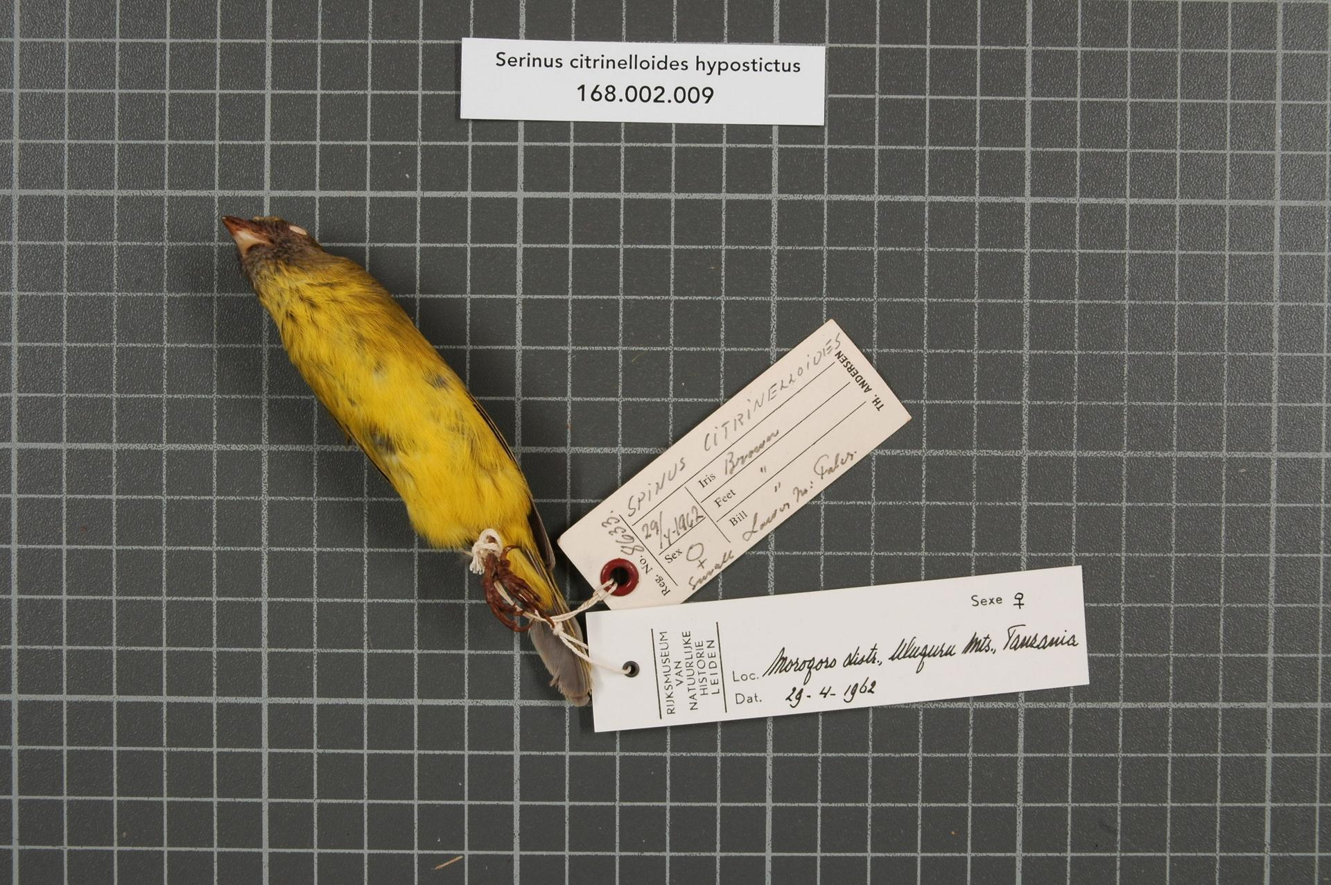 Serinus citrinelloides hypostictus (Reichenow, 1904)